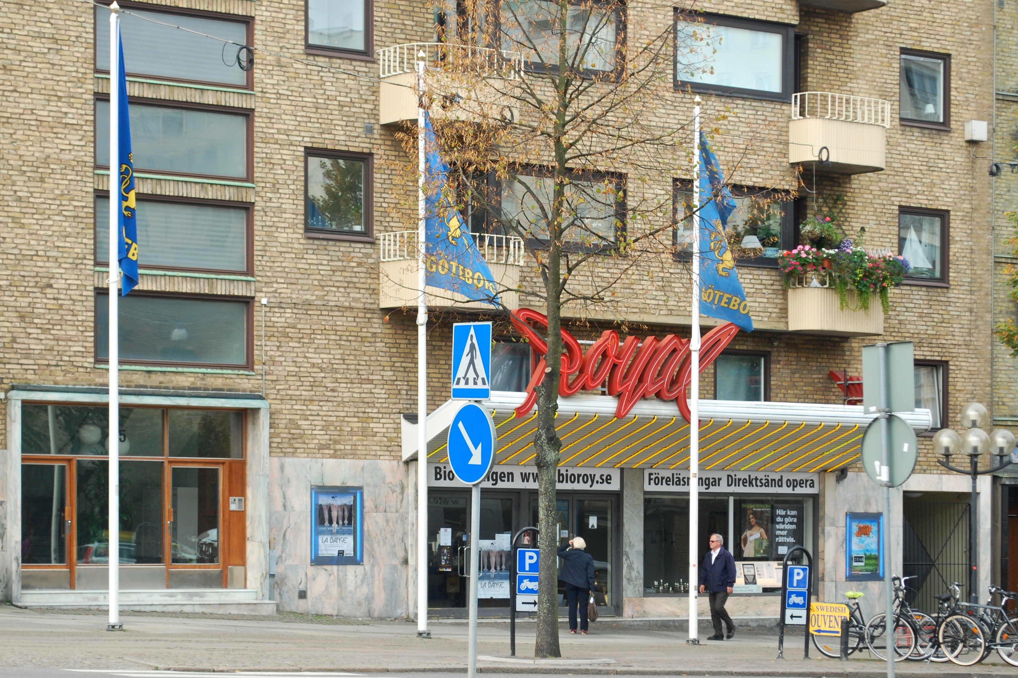 The cinema Royal in Gothenburg, Sweden